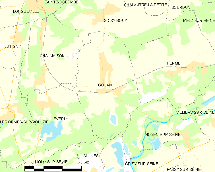 Map of French municipality Gouaix